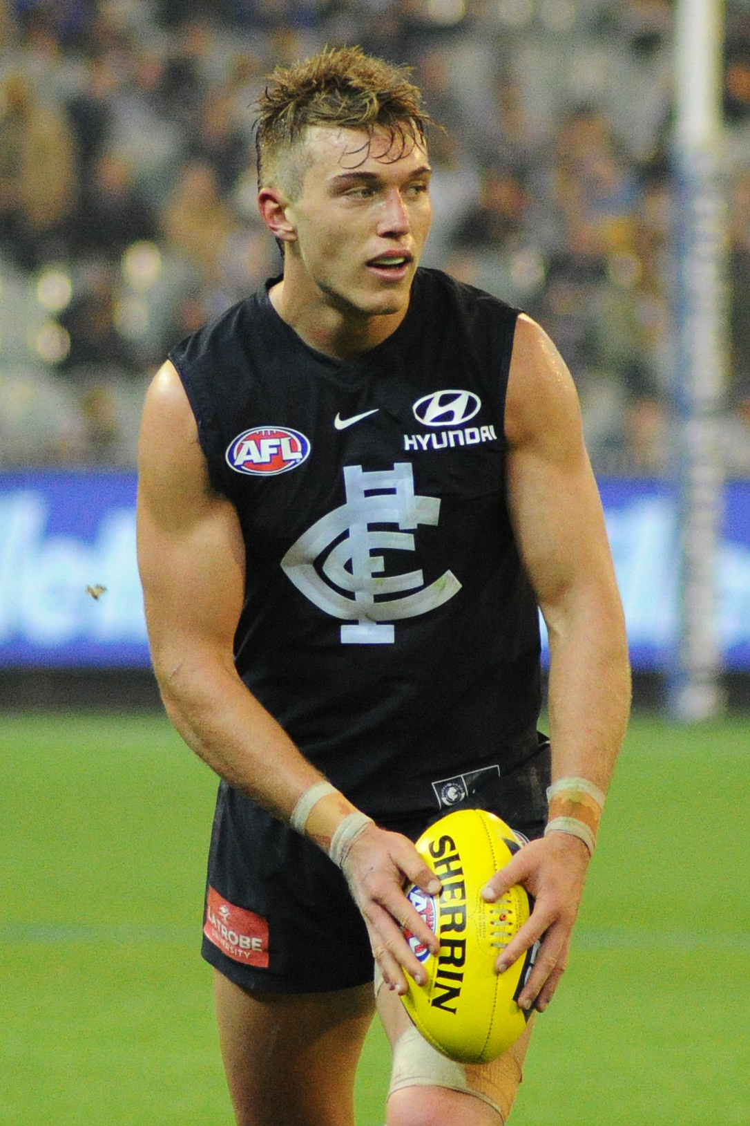 Patrick Cripps during the AFL round five match between Carlton and West Coast on 21 April 2018 at the Melbourne Cricket Ground in Melbourne, Victoria.